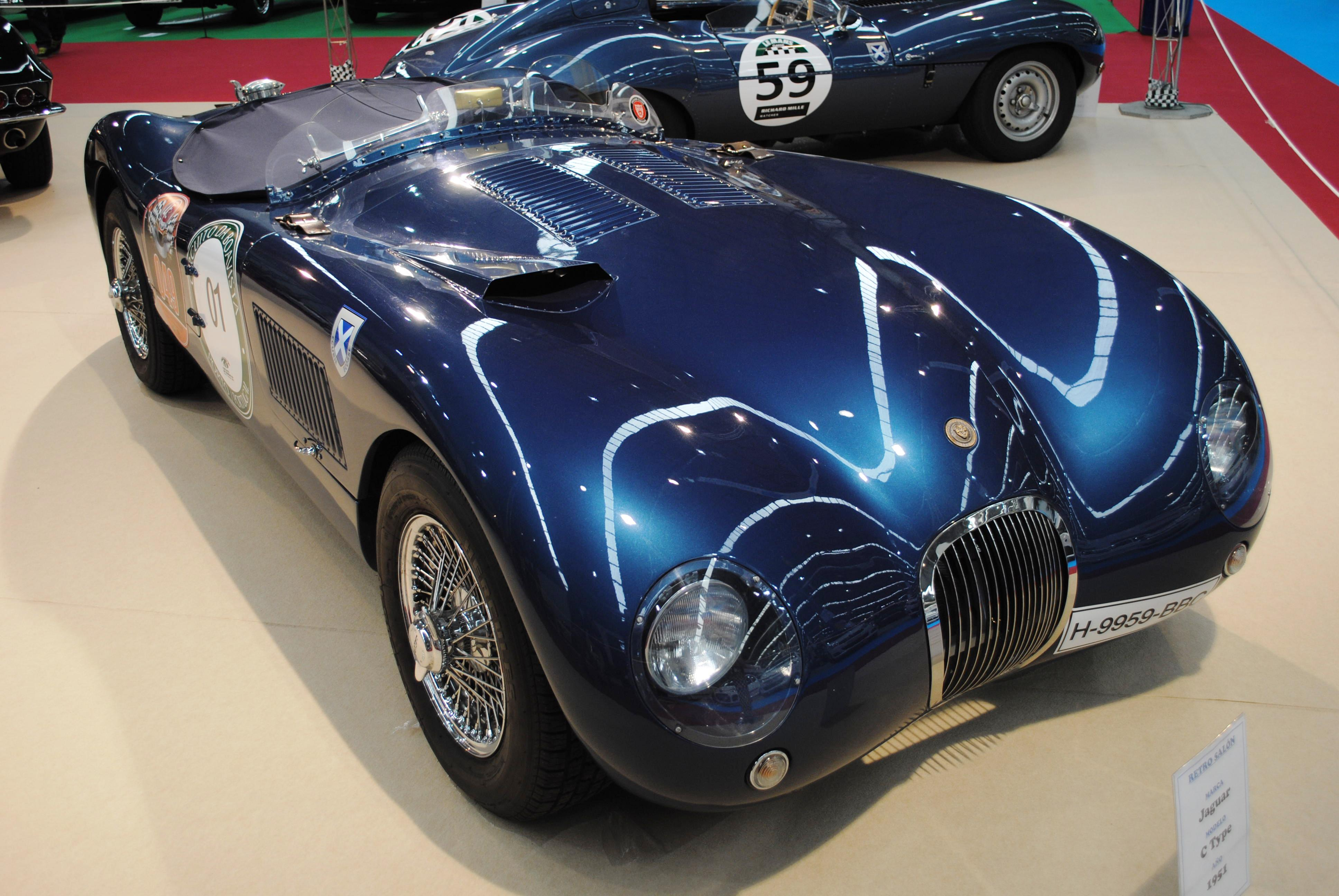 Jaguar C Type, 1951, IFEVI, 2014.JPG